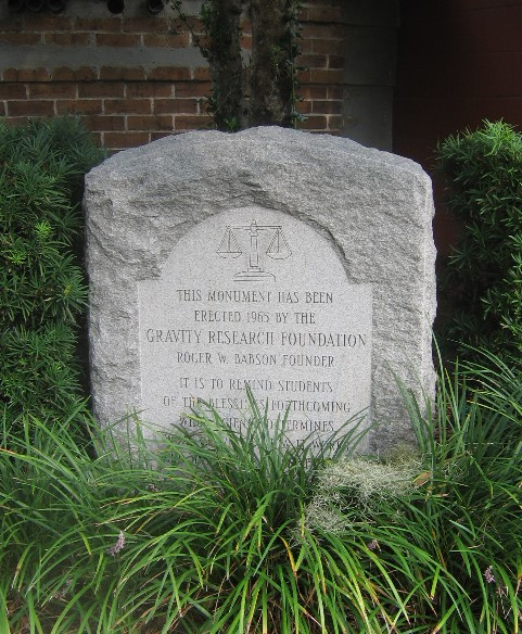 Personal photograph of a Babson gravity rock at the University of Tampa